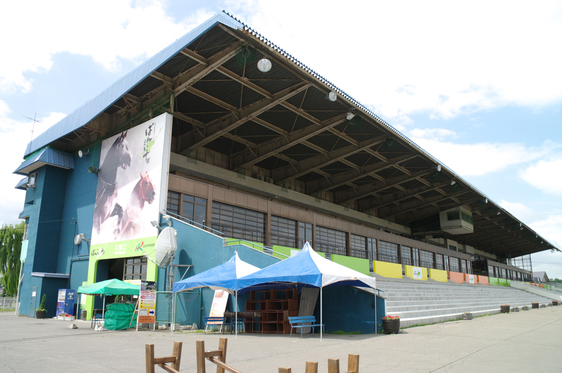 Obihiro Racecourse main stand, Obihiro, Hokkaido, Japan